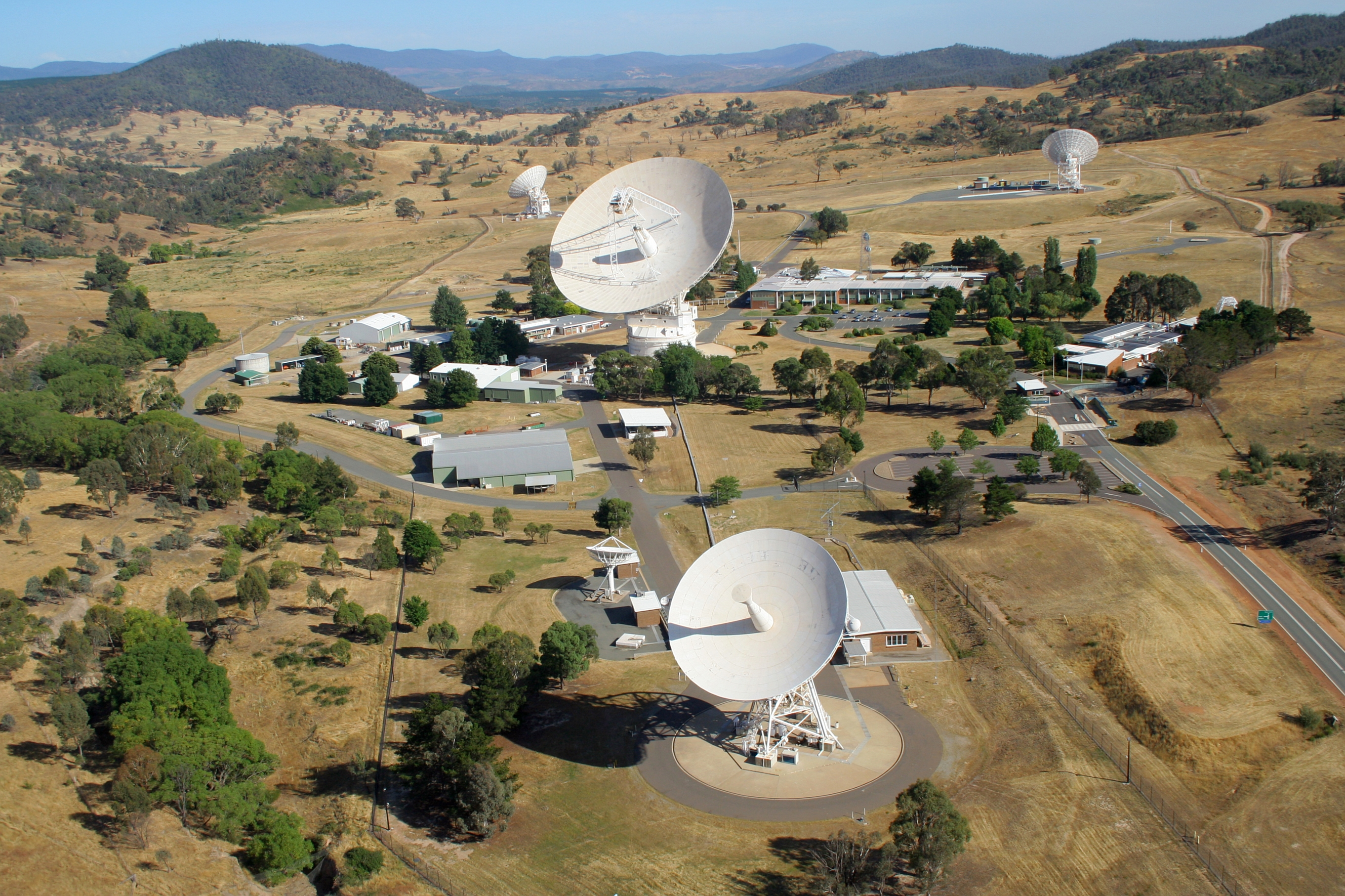 The Canberra Deep Space Communication Complex (CDSCC), located at Tidbinbilla, just outside Canberra, is one of three Deep Space Network stations around the world providing continuous, two-way radio contact with spacecraft exploring our solar system and beyond. The CDSCC is part of NASA's Deep Space Network (DSN) which provides continuous radio contact with spacecraft. Similar facilities are located in Spain and the United States of America. The complex, managed and operated by CSIRO, consists of one 70 metre, two 34 metre and one 26 metre radio telescope antennas with two-way communication capacity.